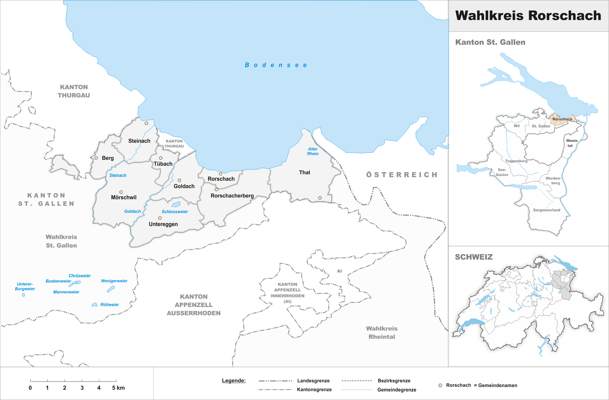 Municipalities in the district of Rorschach